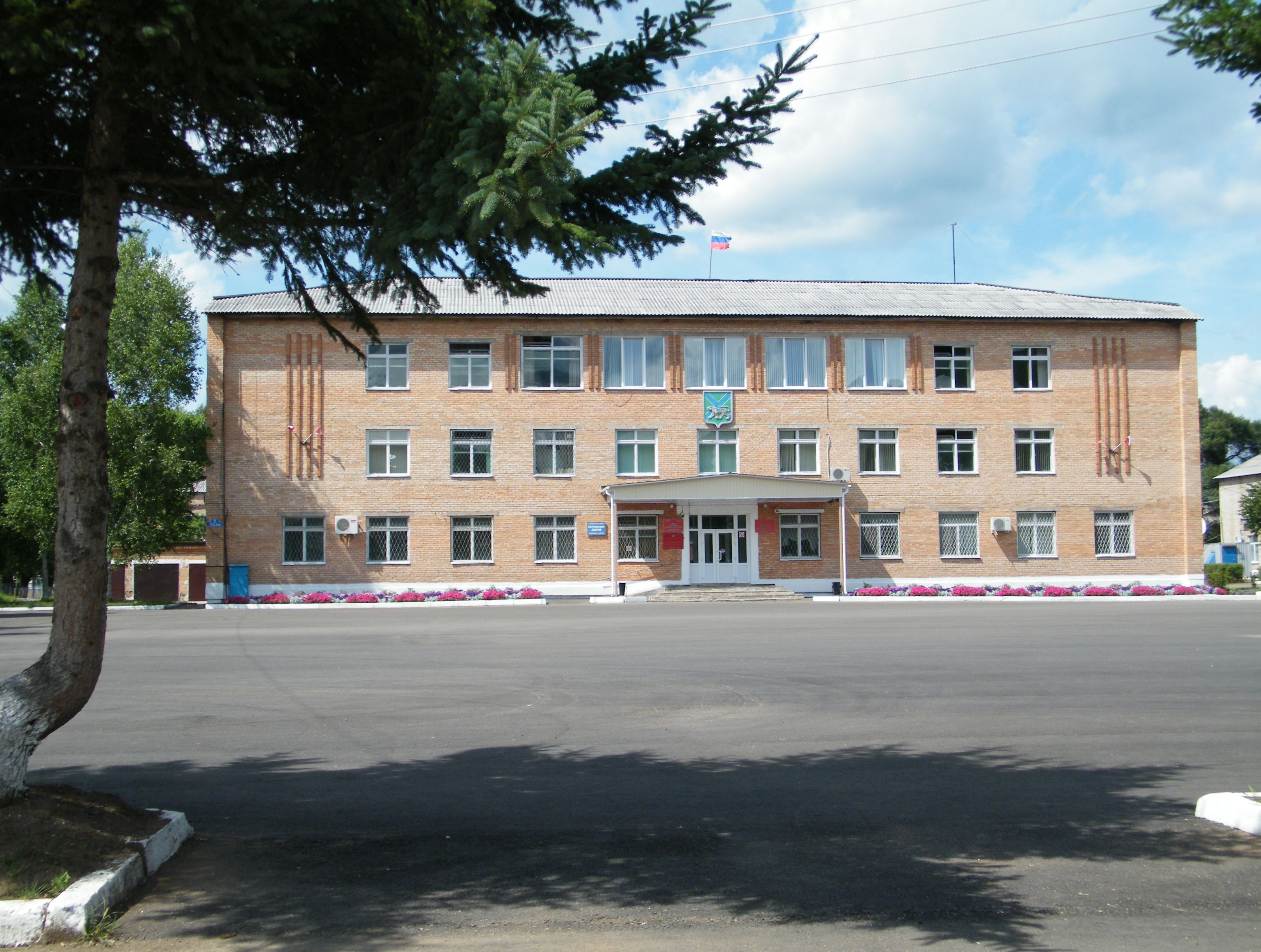 Anuchino district (rayon) administration building